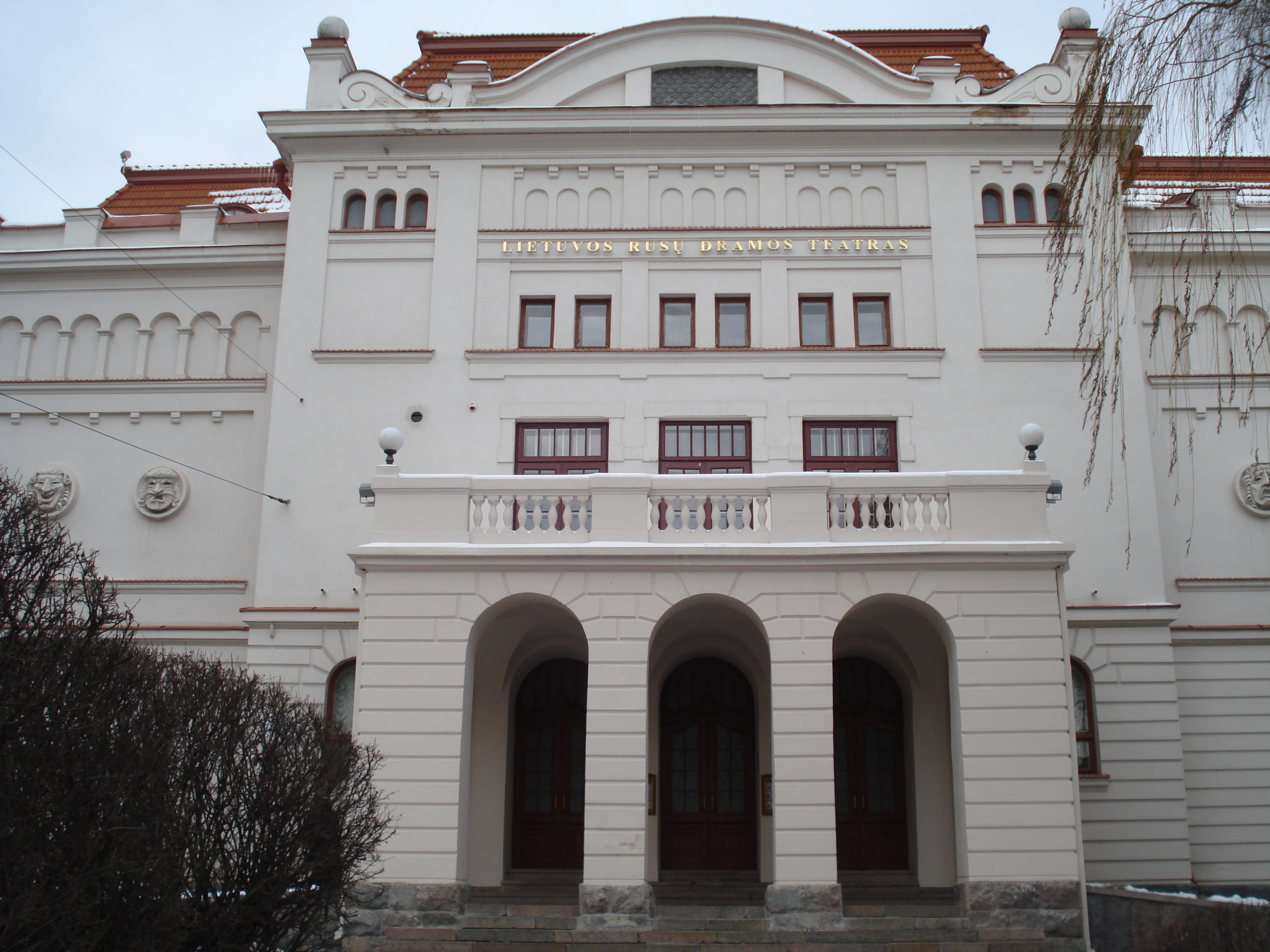 Russian Drama Theatre of Lithuania. Main facade (J. Basanavičiaus g. 13)